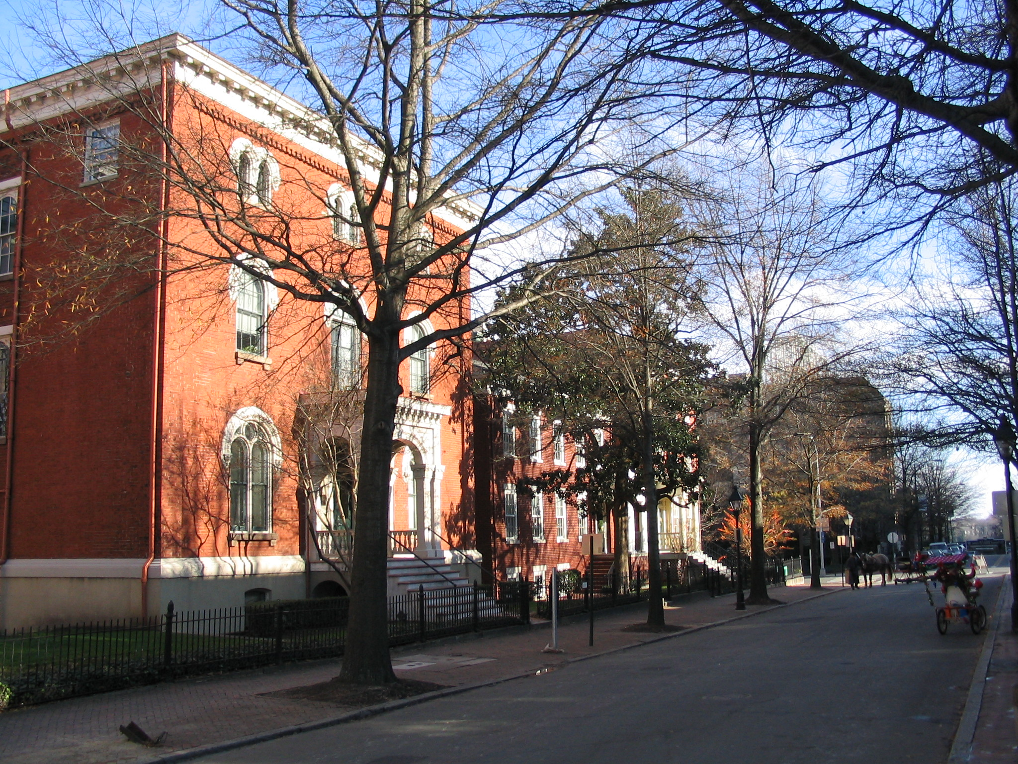 View East, down 1000 block E. Clay Street, in the neighborhood of Court End, Richmond, Virginia.